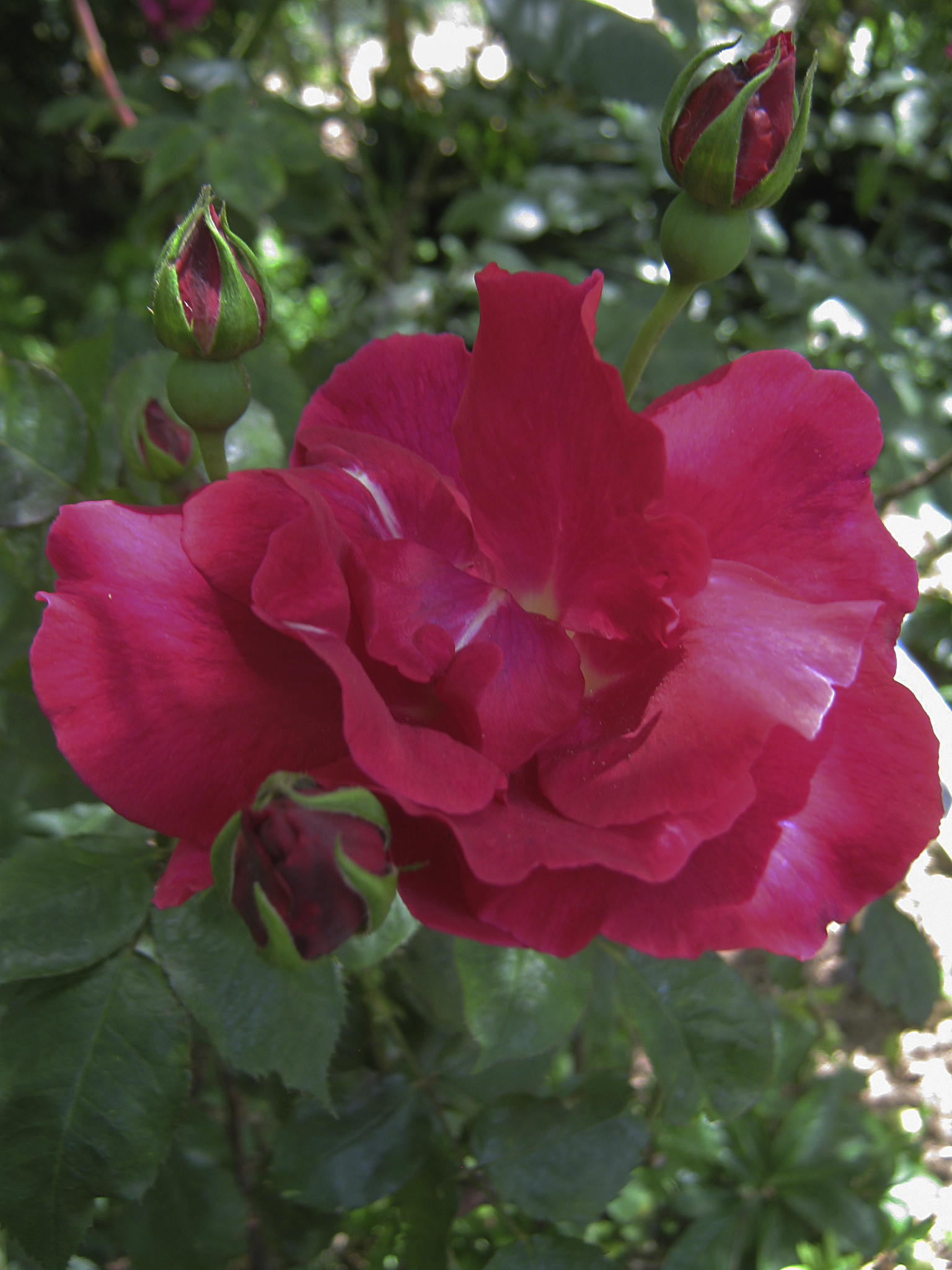 Rose 'Glenara', Hybrid Tea by Alister Clark found 1951; Photographed in the Alister Clark Memorial Rose Garden, Bulla, VIctoria